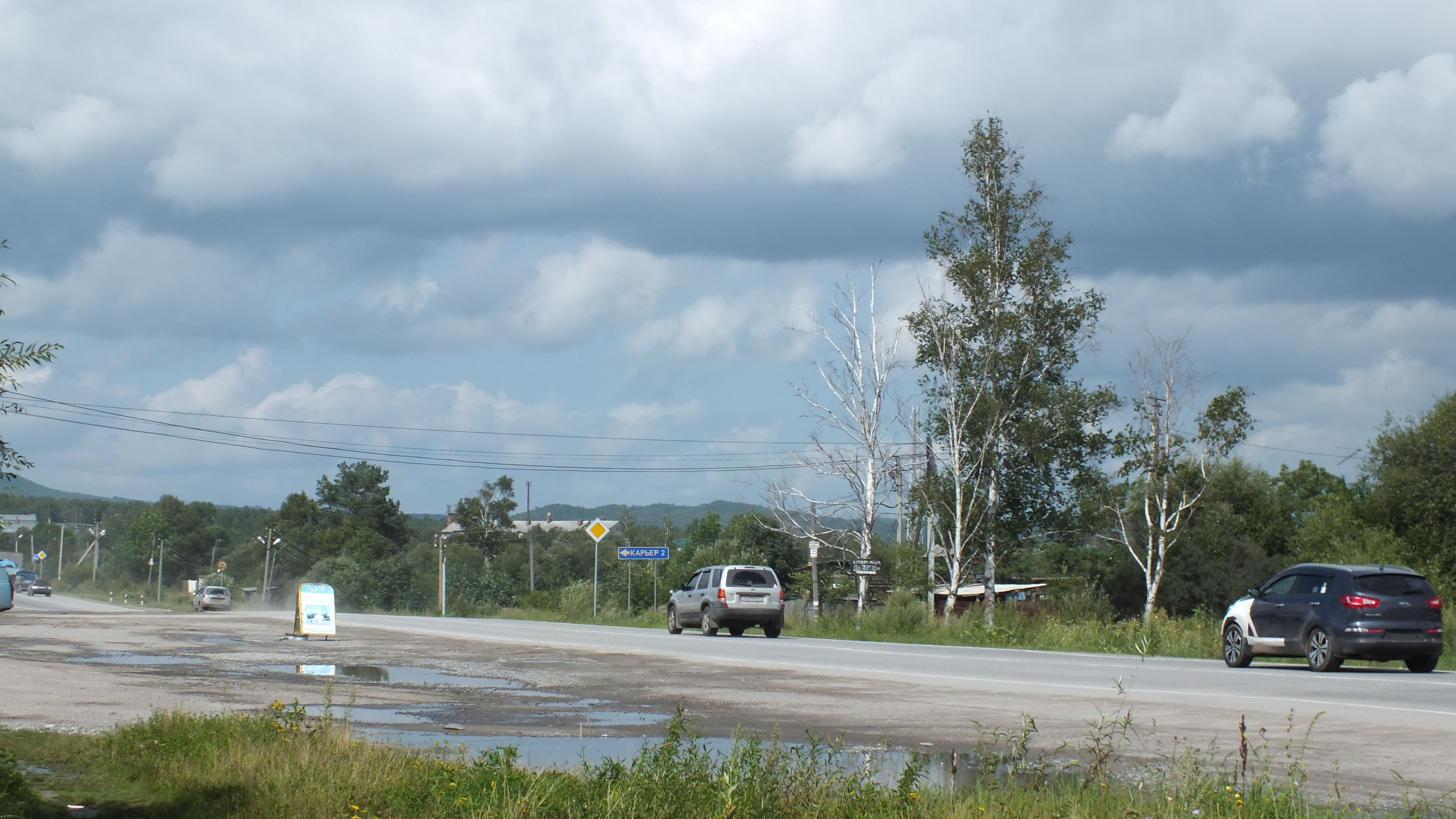 Khabarovsk Krai